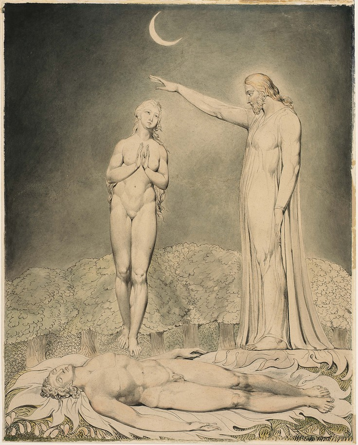 Watercolor Illustration to Milton's Paradise Lost by William Blake